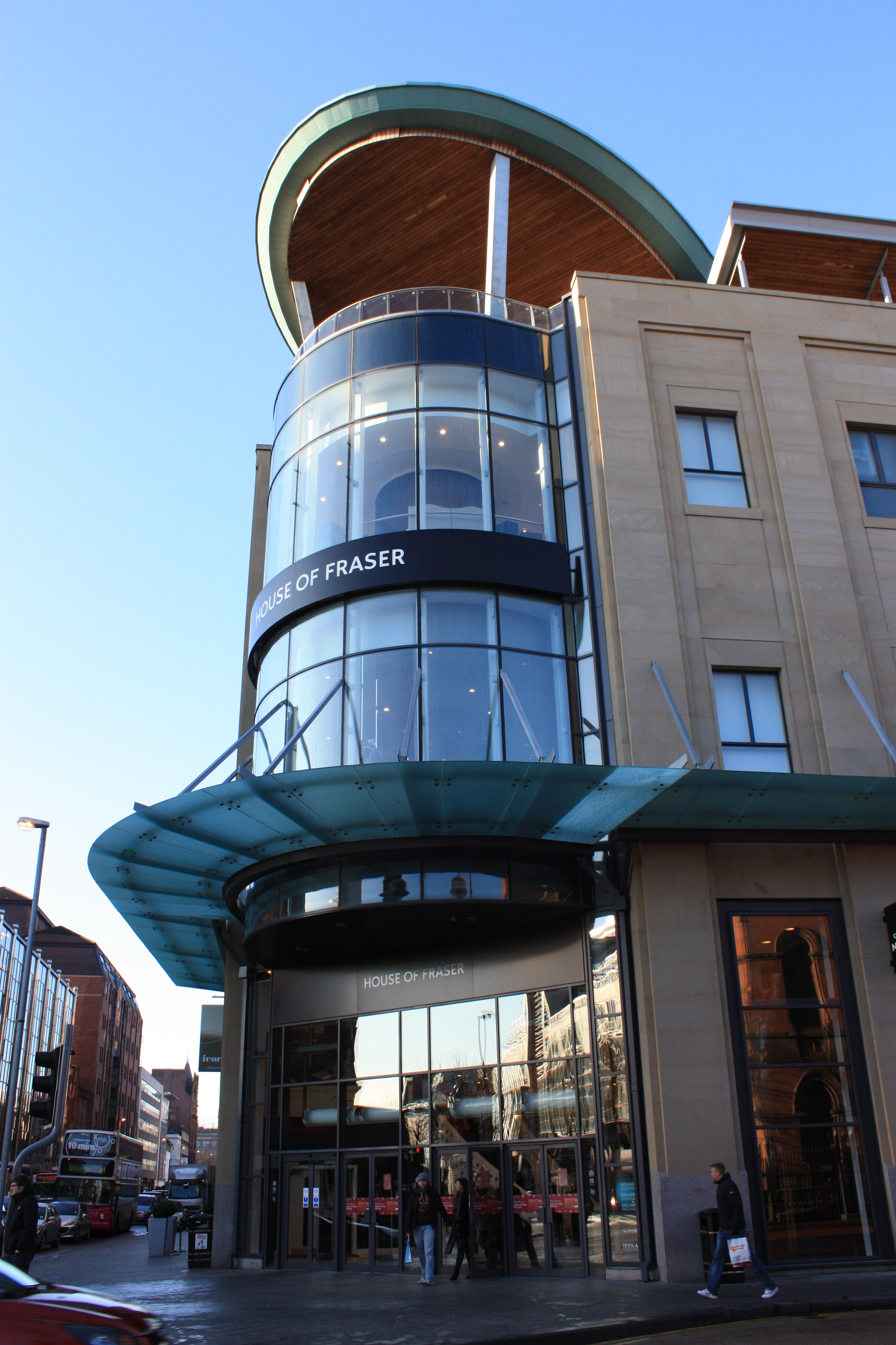 House of Fraser, Victoria Square (entrance at the corner of Victoria Street and Chichester Street), Belfast, Northern Ireland, December 2009